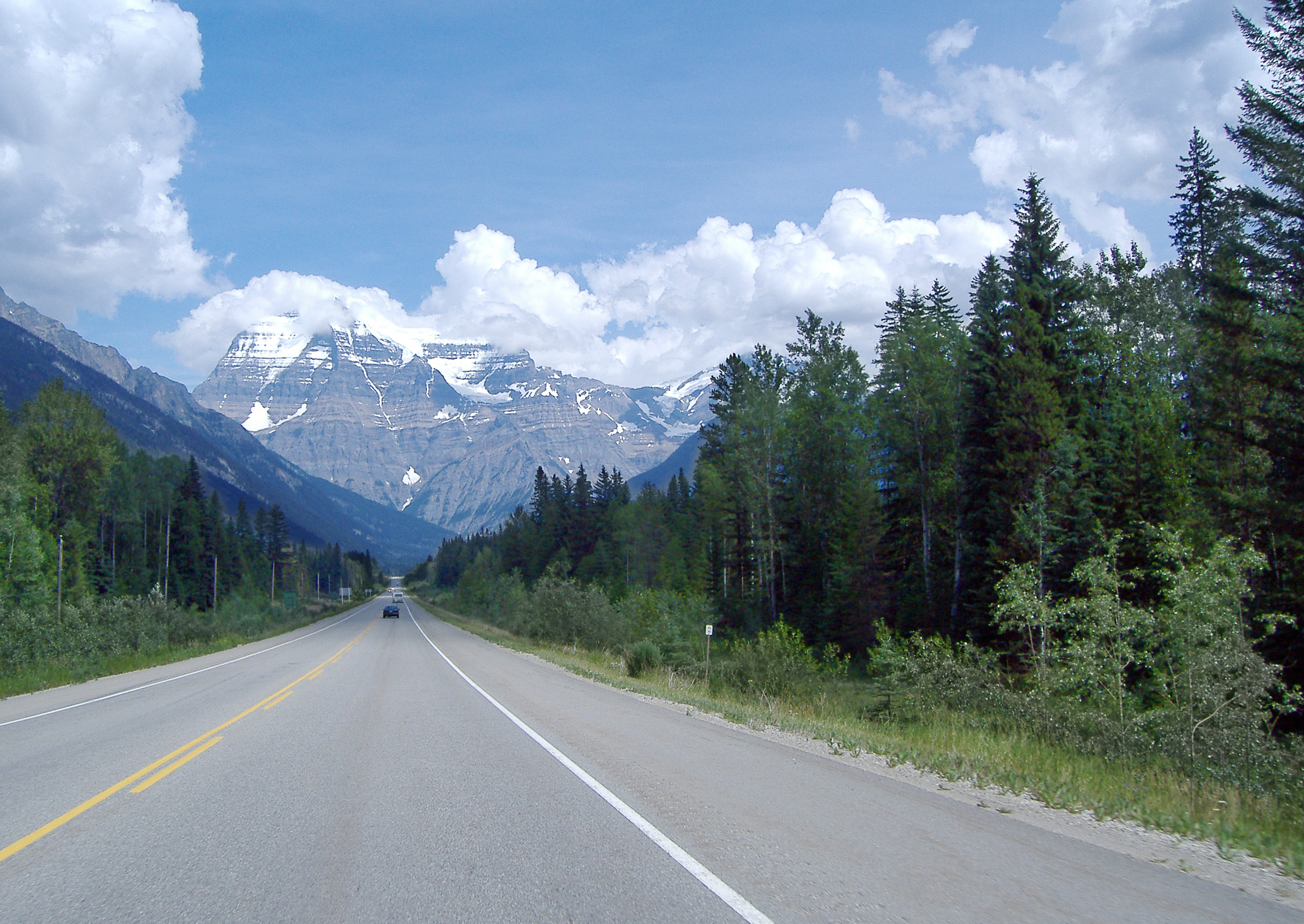 Highway 16 (Yellowhead Highway) while passing through Mt. Robson Provincial Park. :: Colin Keigher 04:15, 14 July 2006 (UTC)